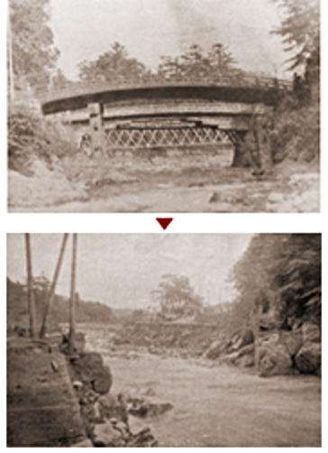 Japan: Shinkyō destroyed by the 1902 floods in Nikkō (Tochigi prefecture).